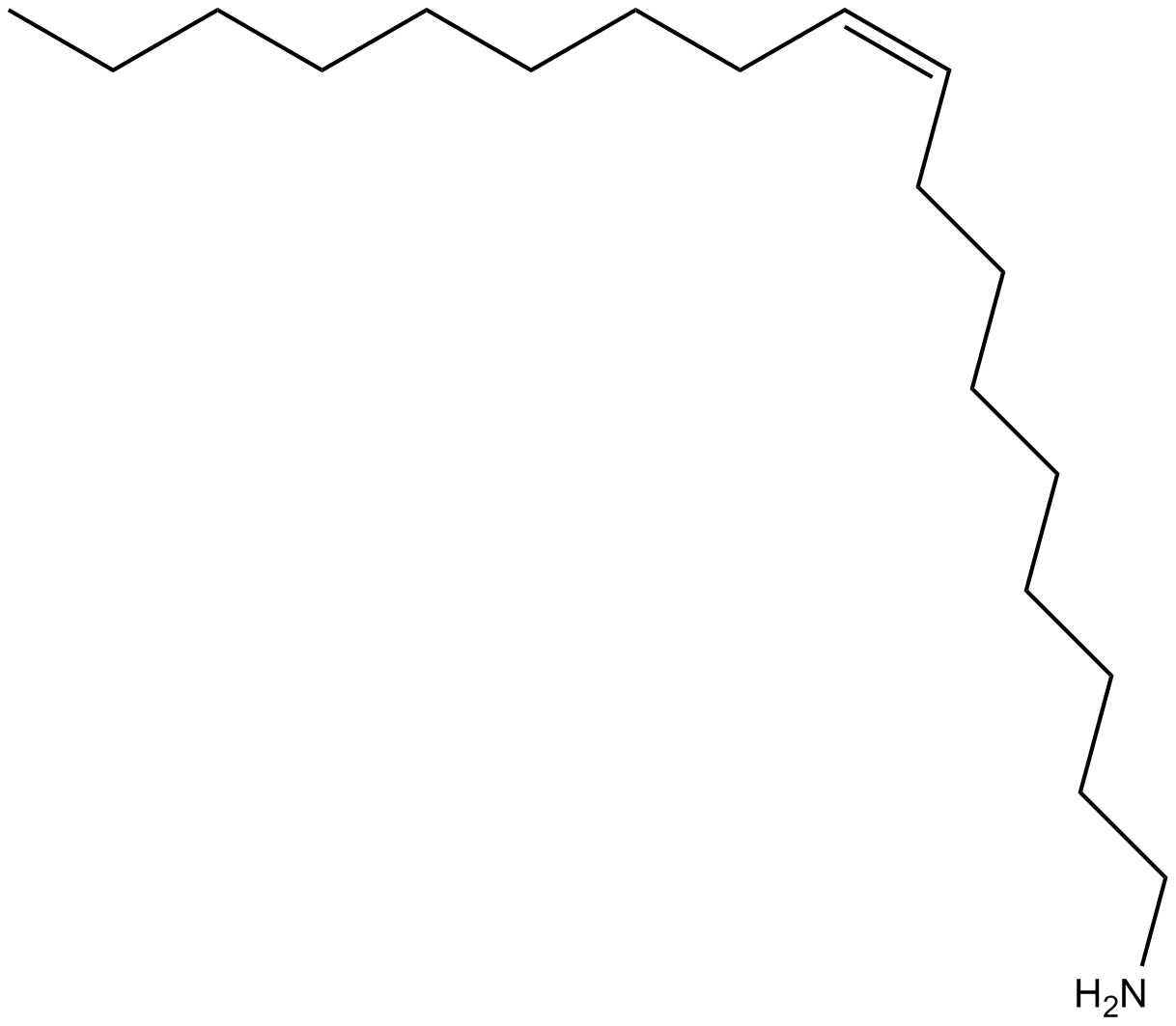 Chemical structure of oleylamine created with ChemBioDraw